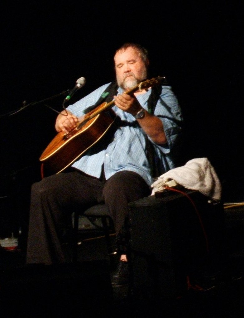 John Martyn playing at Vicar Street, Dublin